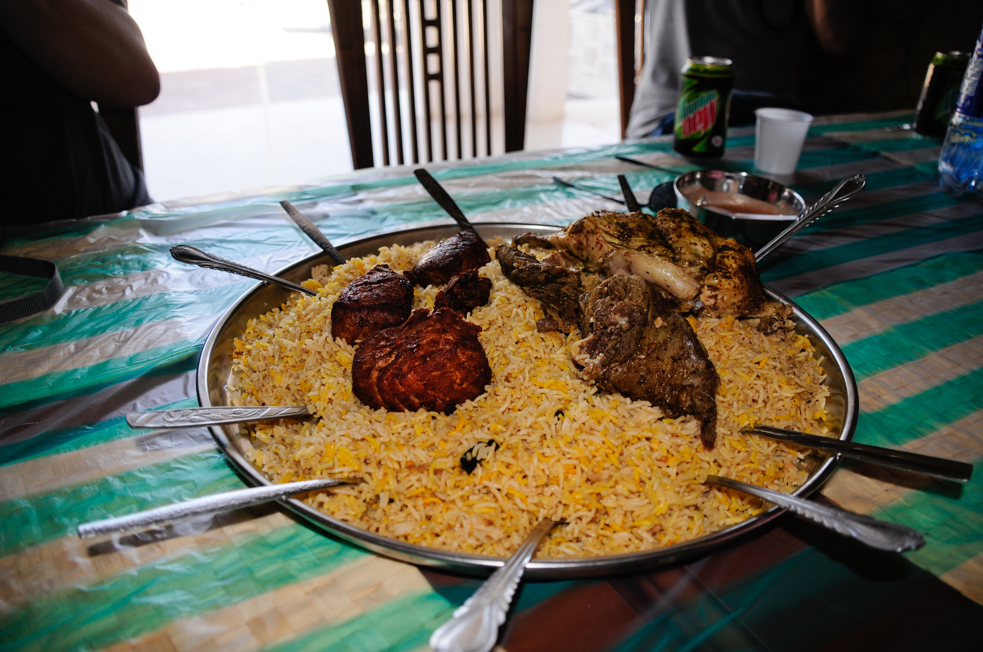 Omani food is heavily influenced by Indian cuisine, and is generally centered on richly-seasoned chicken, fish, and lamb, as well as rice.